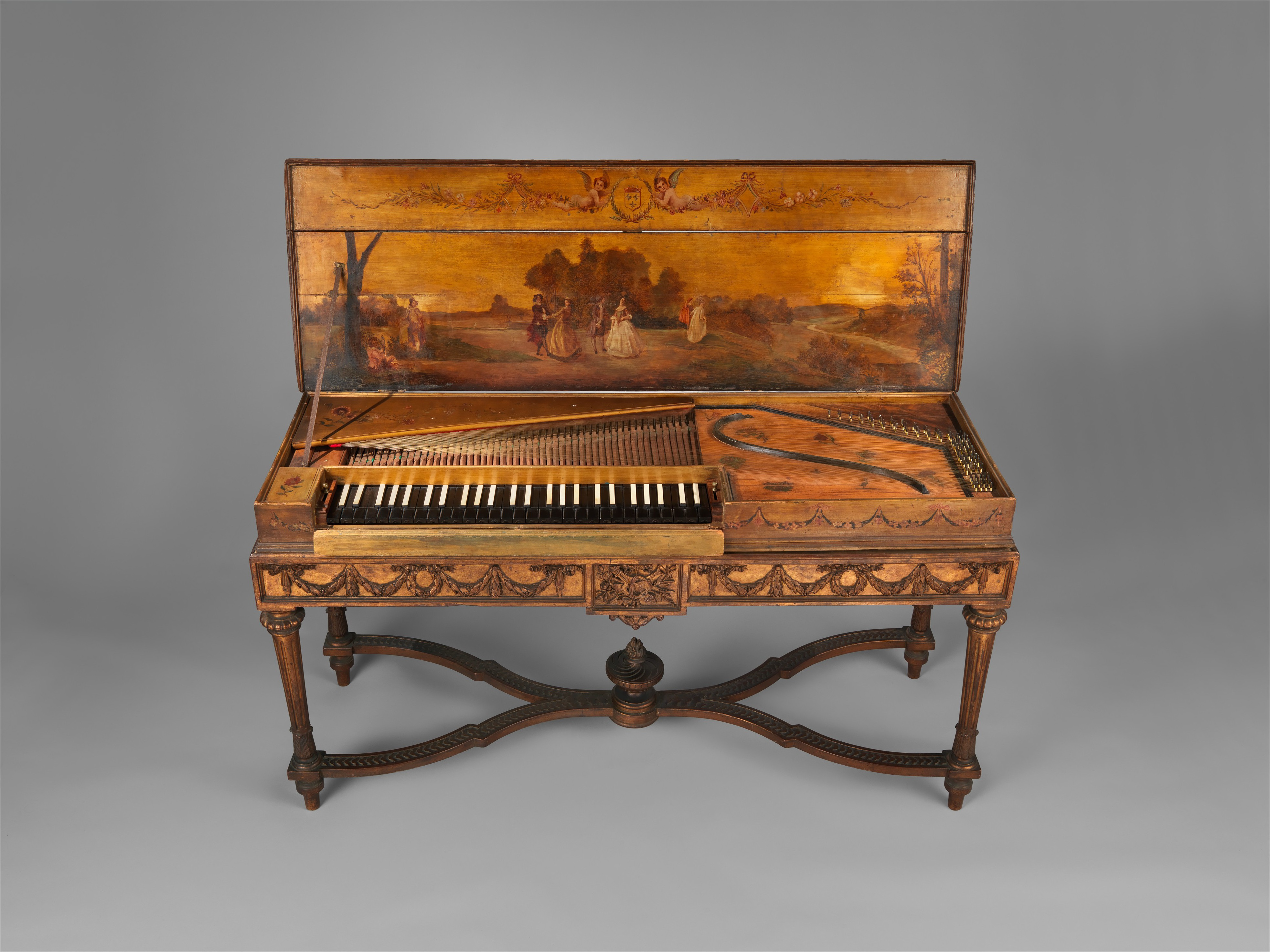 German; Clavichord; Chordophone-Zither-struck-clavichord